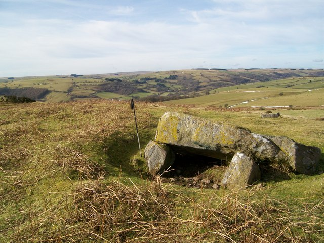 Bailey Bach barrow This is probably a Neolithic chambered tomb. It's in a superb site, with very extensive views south to the Brecon Beacons and west from them along the range of mountains and over the Honddu valley to the further Epynt.